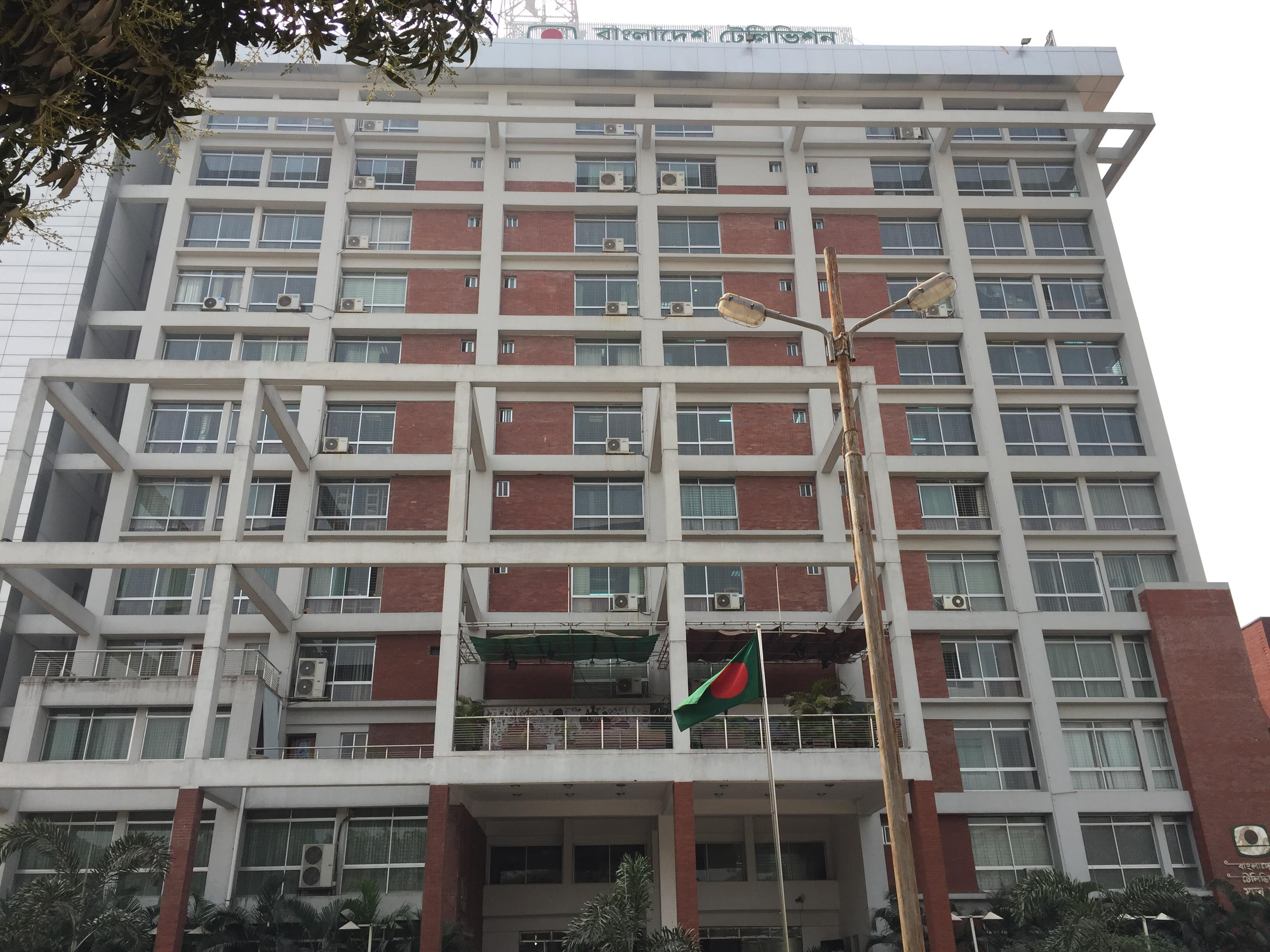 Bangladesh Television administrative building, Rampura, Dhaka